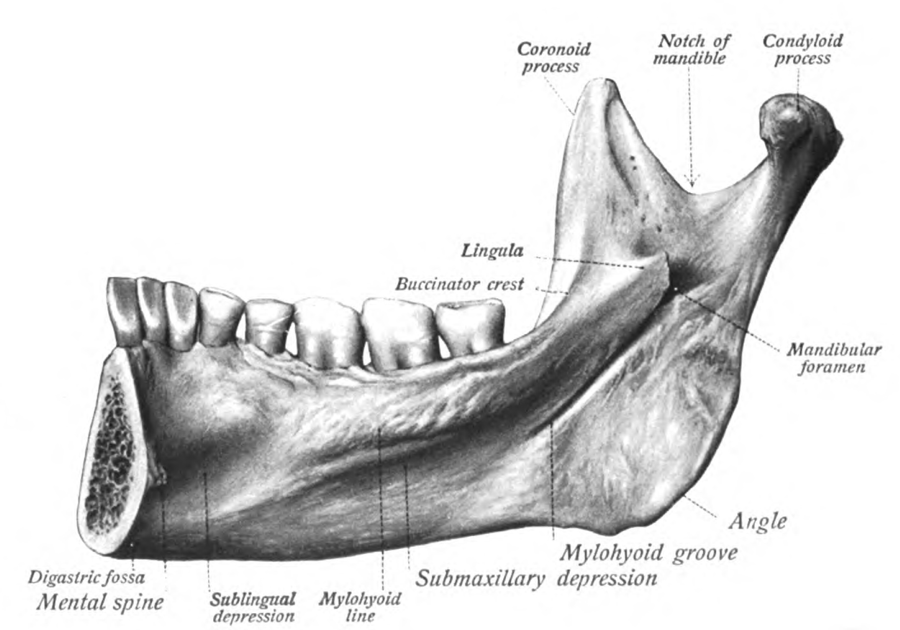 An illustration from the 1909 American edition of Sobotta's anatomy with English terminology